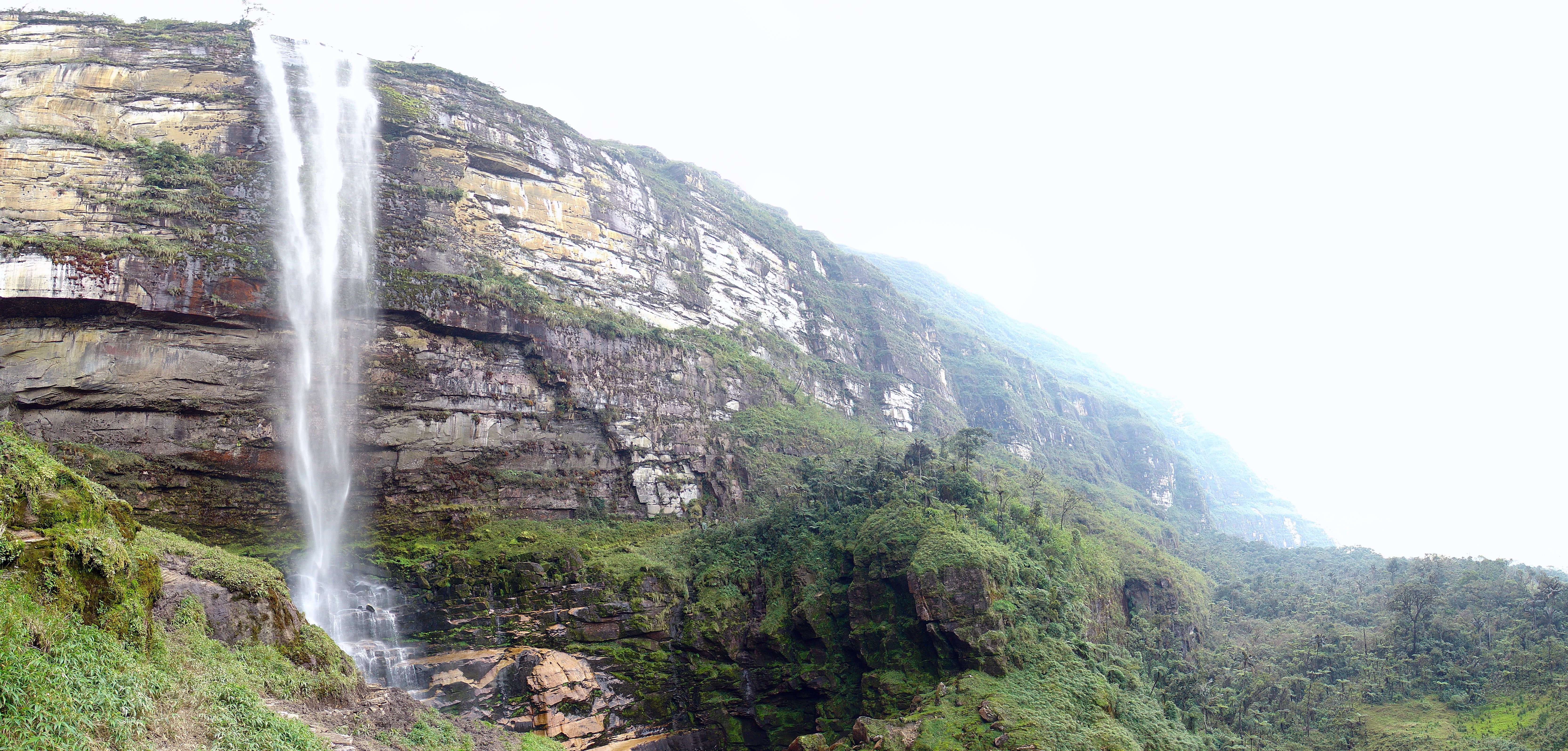 Upper part of the Gocta waterfalls, Peru